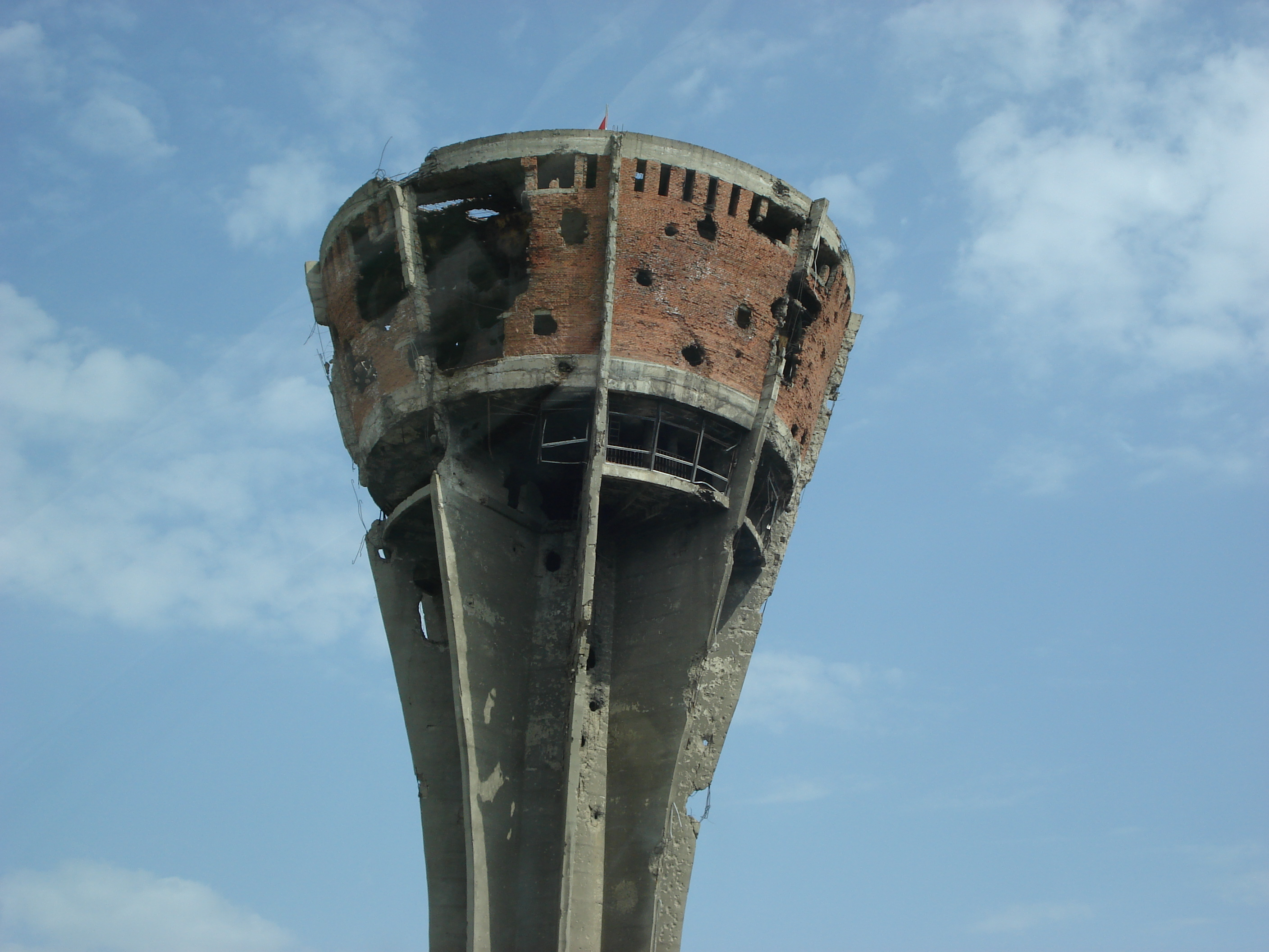 Water Tower 2007 year - Vukovar.